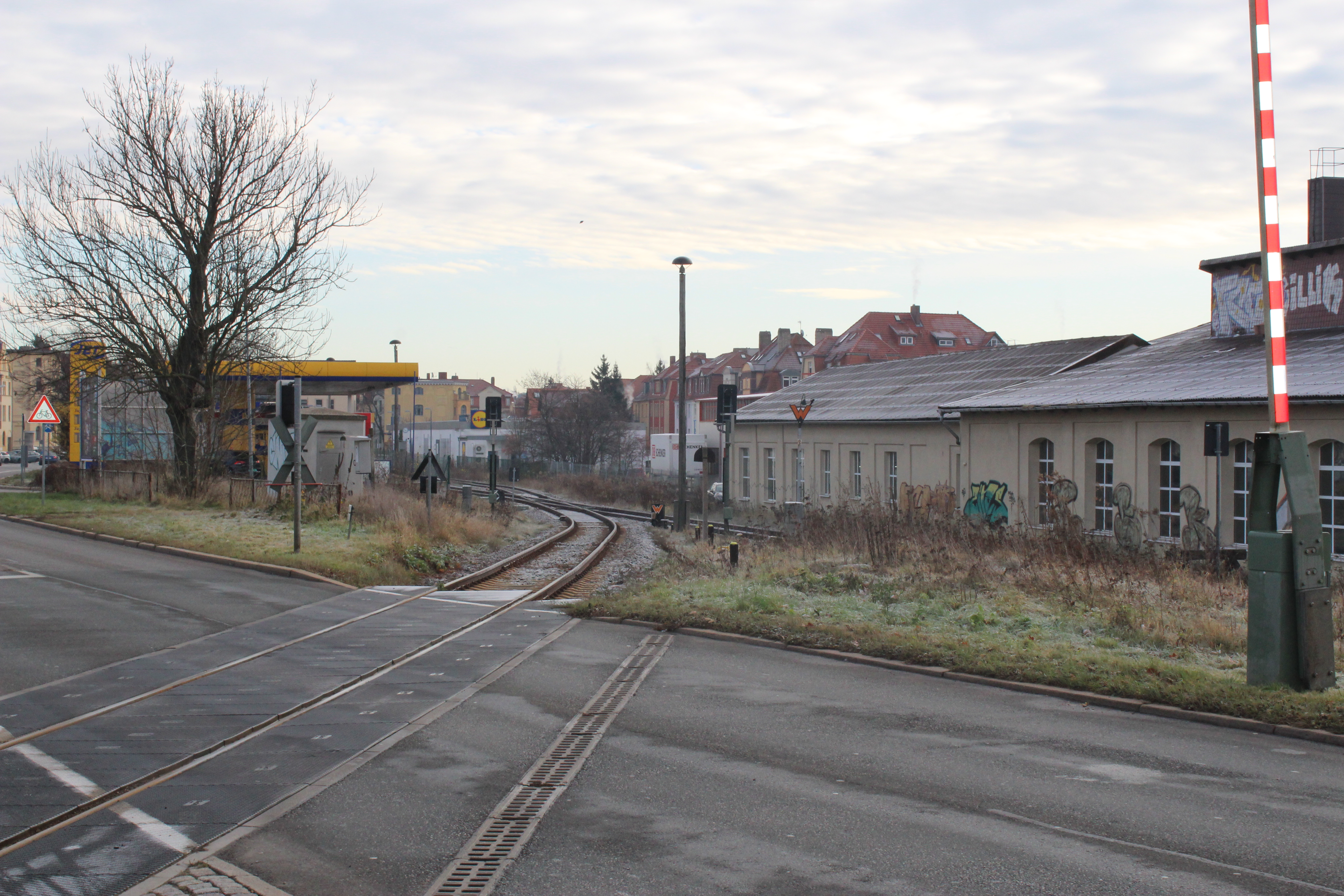 train station Weimar Berkaer Bf, entrance